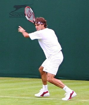 Roger Federer at Wimbledon, 2005